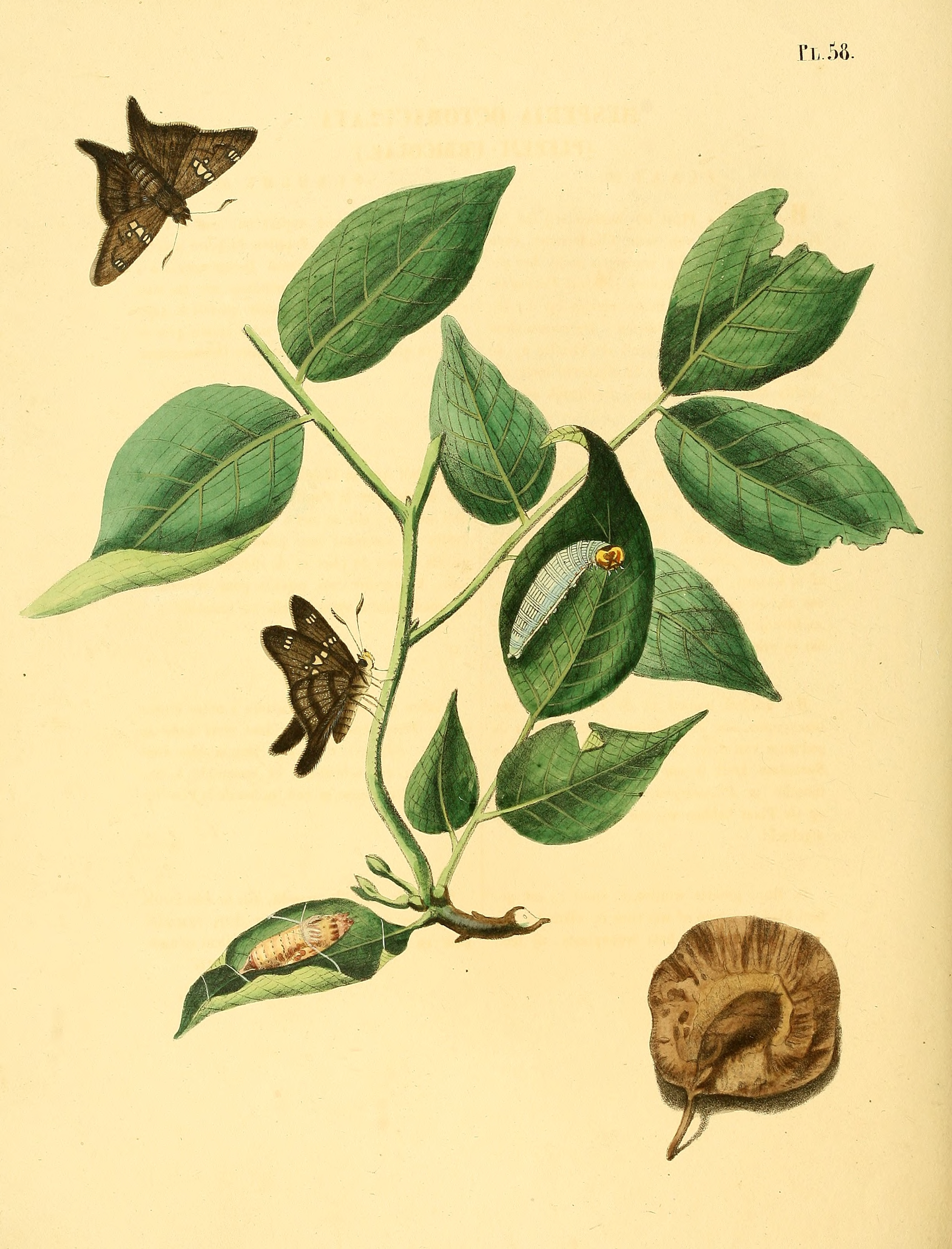 Illustration of: Polythrix octomaculata (as syn. Hesperia octomaculata)